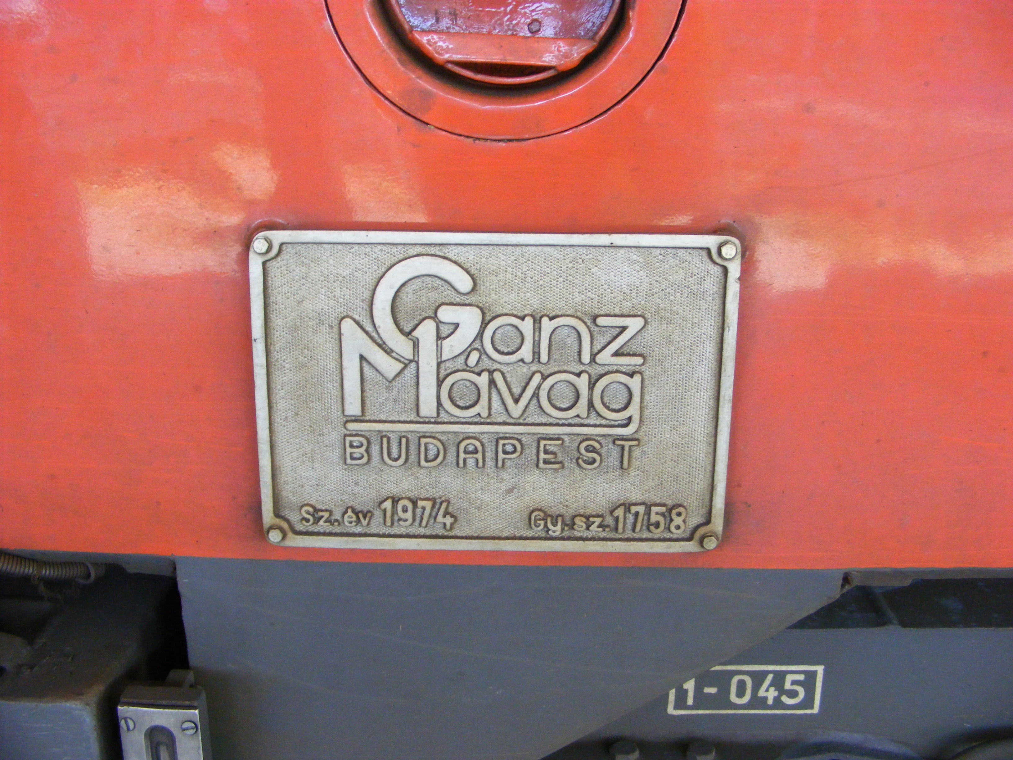 The factory badge of a M41 class diesel locomotive.